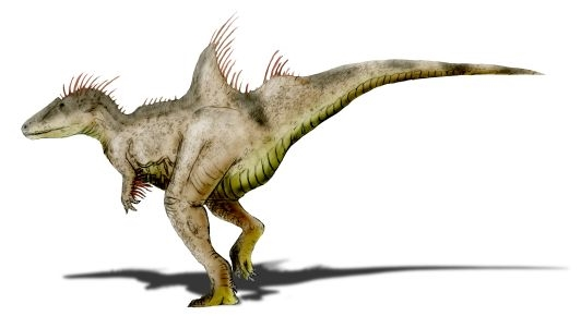 Concavenator corcovatus restored with a speculative coat of quills.